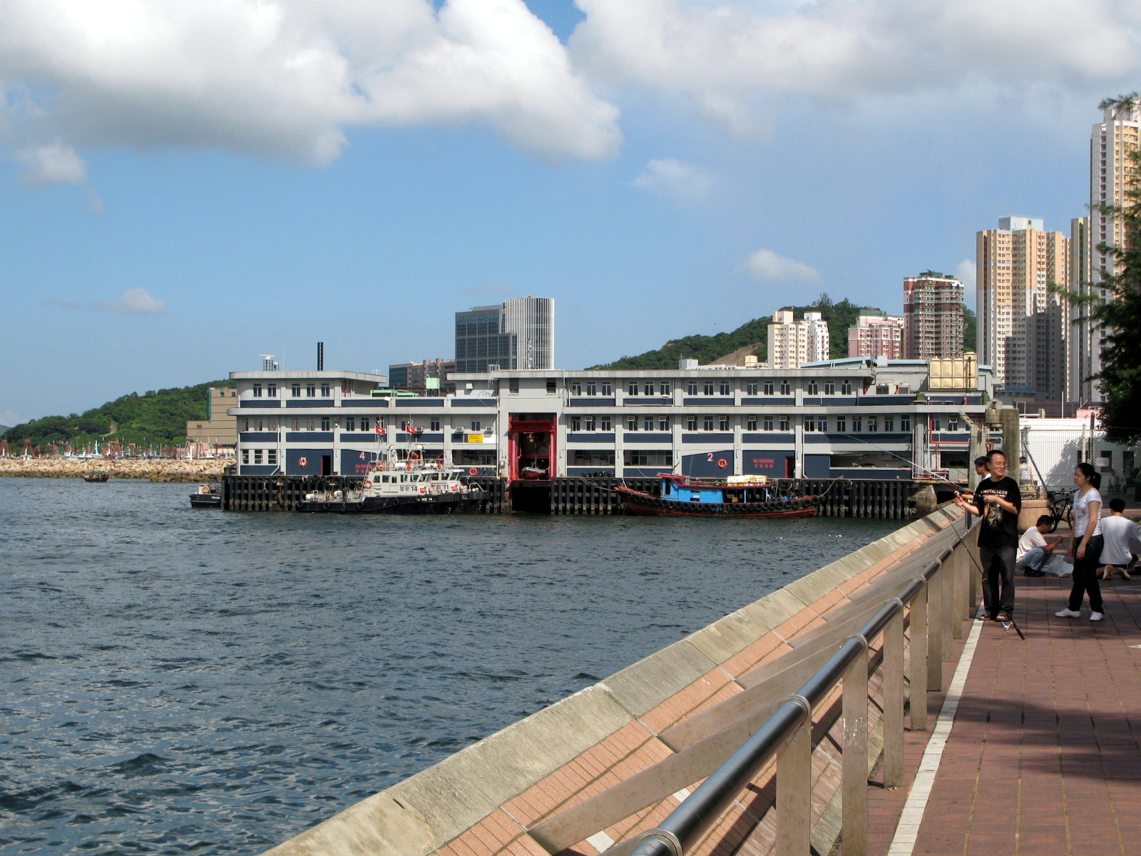 HK Marine Police Harbour Division 西灣河水警基地